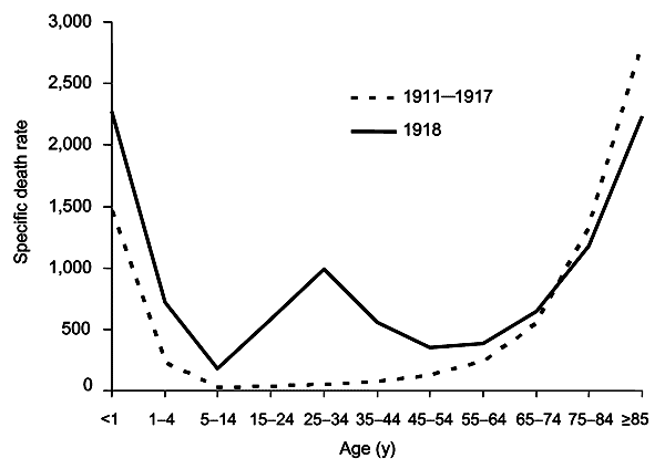 Figure 2. "U-" and "W-" shaped combined influenza and pneumonia mortality, by age at death, per 100,000 persons...